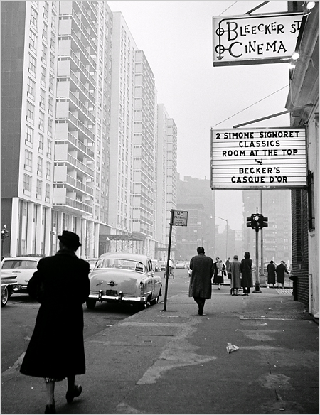 The Bleecker Street Cinema, a beloved theater that closed in 1990. The Washington Square Village apartment complex in the back. (By Robert Otter). Source and original caption: "The Bleecker Street Cinema, located on Bleecker near LaGuardia Place (photo: Robert Otter)"